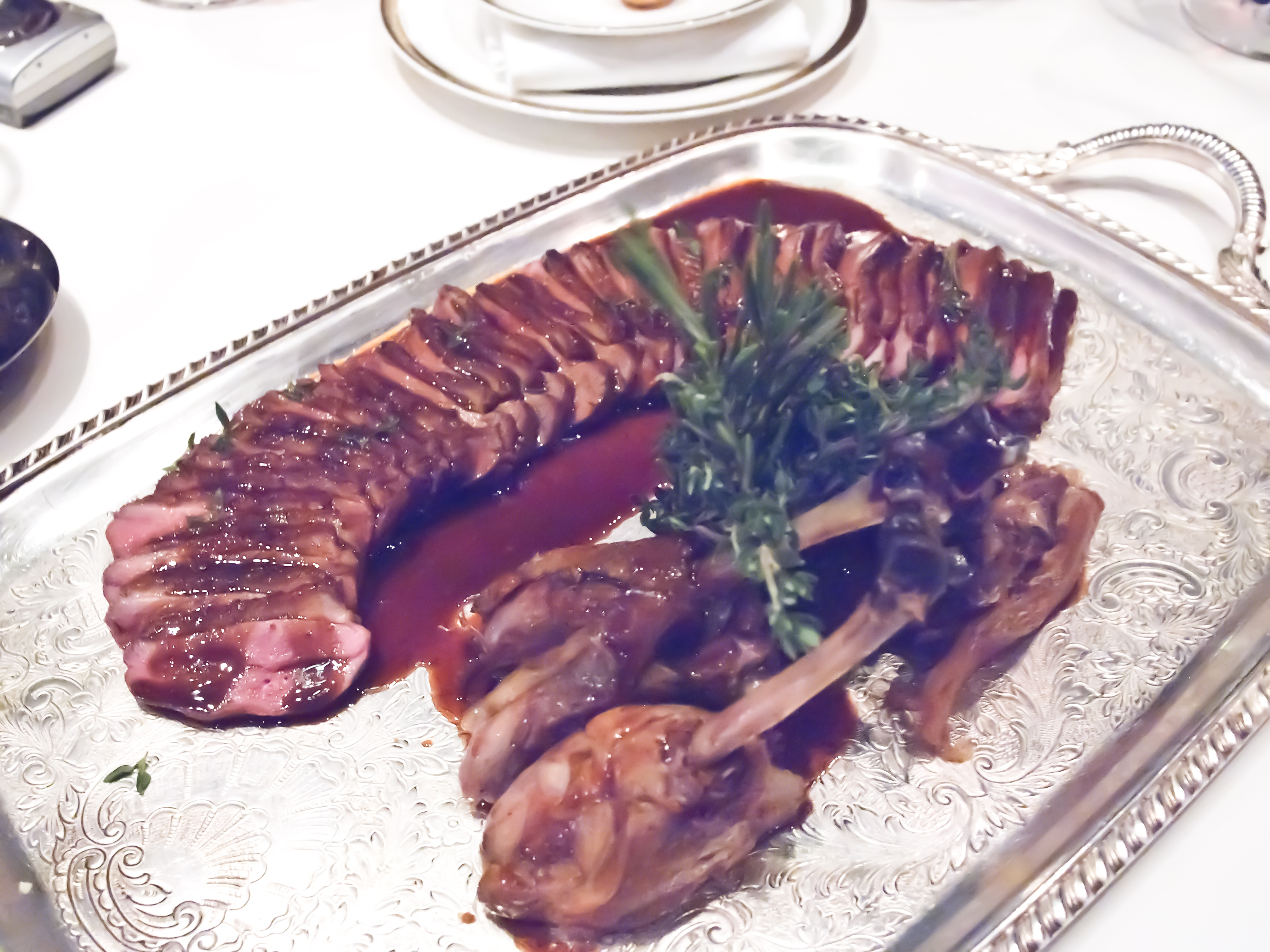 Caneton Rouennaise à la Presse is recipe 3476 from Auguste Escoffier's "La Guide Culinaire." It is duck prepared using a duck press and served with Sauce Rouennais, a Bordelaise sauce with the addition of puréed duck liver.